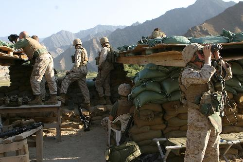 2nd Battalion, 3rd Marines in Afghanistan, late 2005